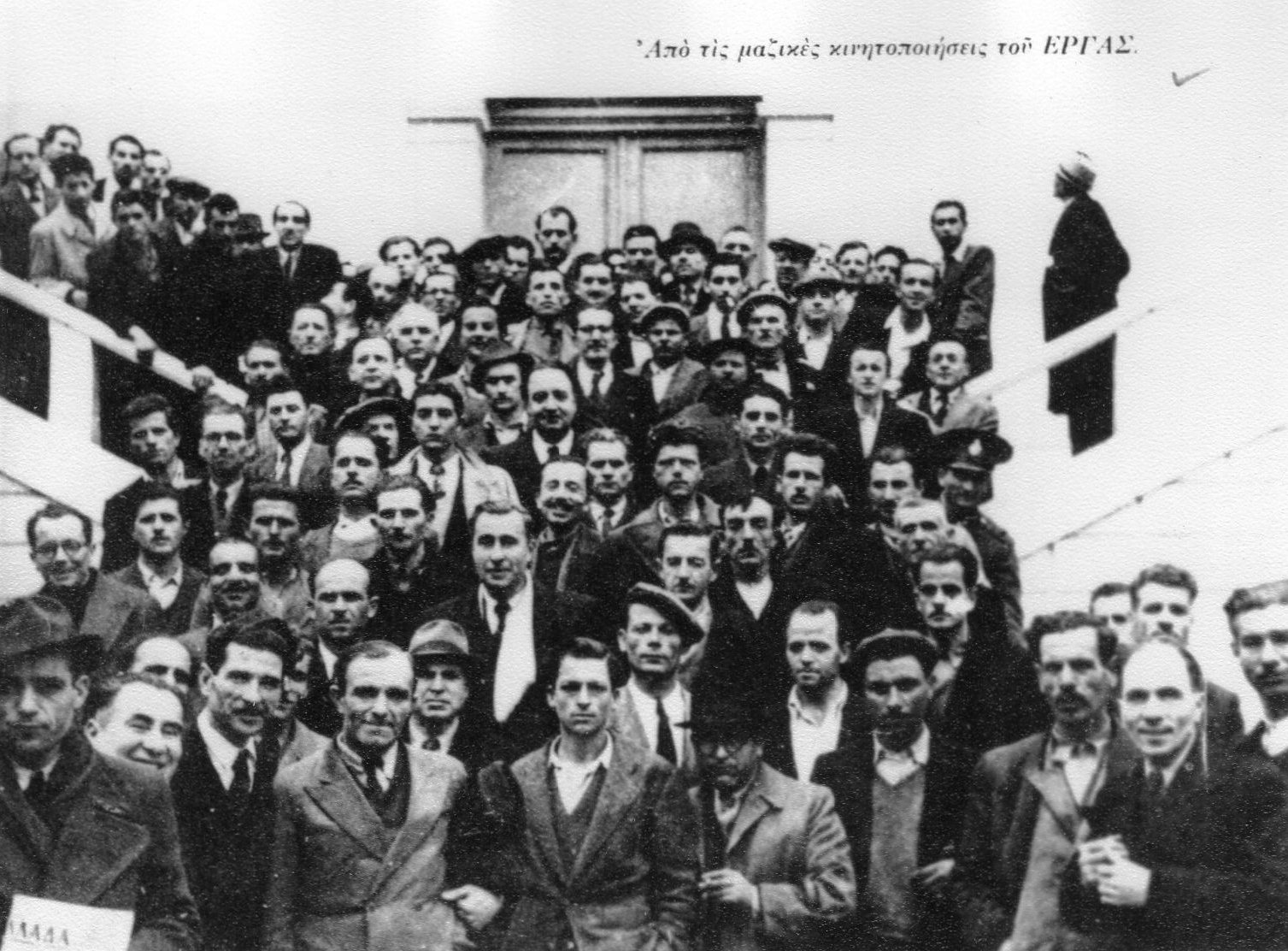 A moment of the ERGAS actions, Greek Civil War. This media file is produced by Wikipedian in Residence in Category:Wikipedian in Residence at DARM in 2017.